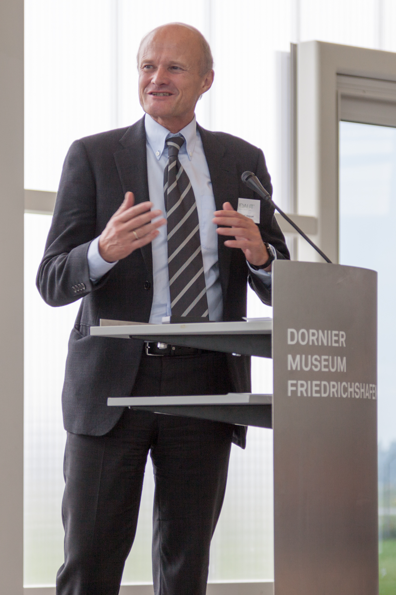 Josef Hegger, Civil engineer at RWTH Aachen University